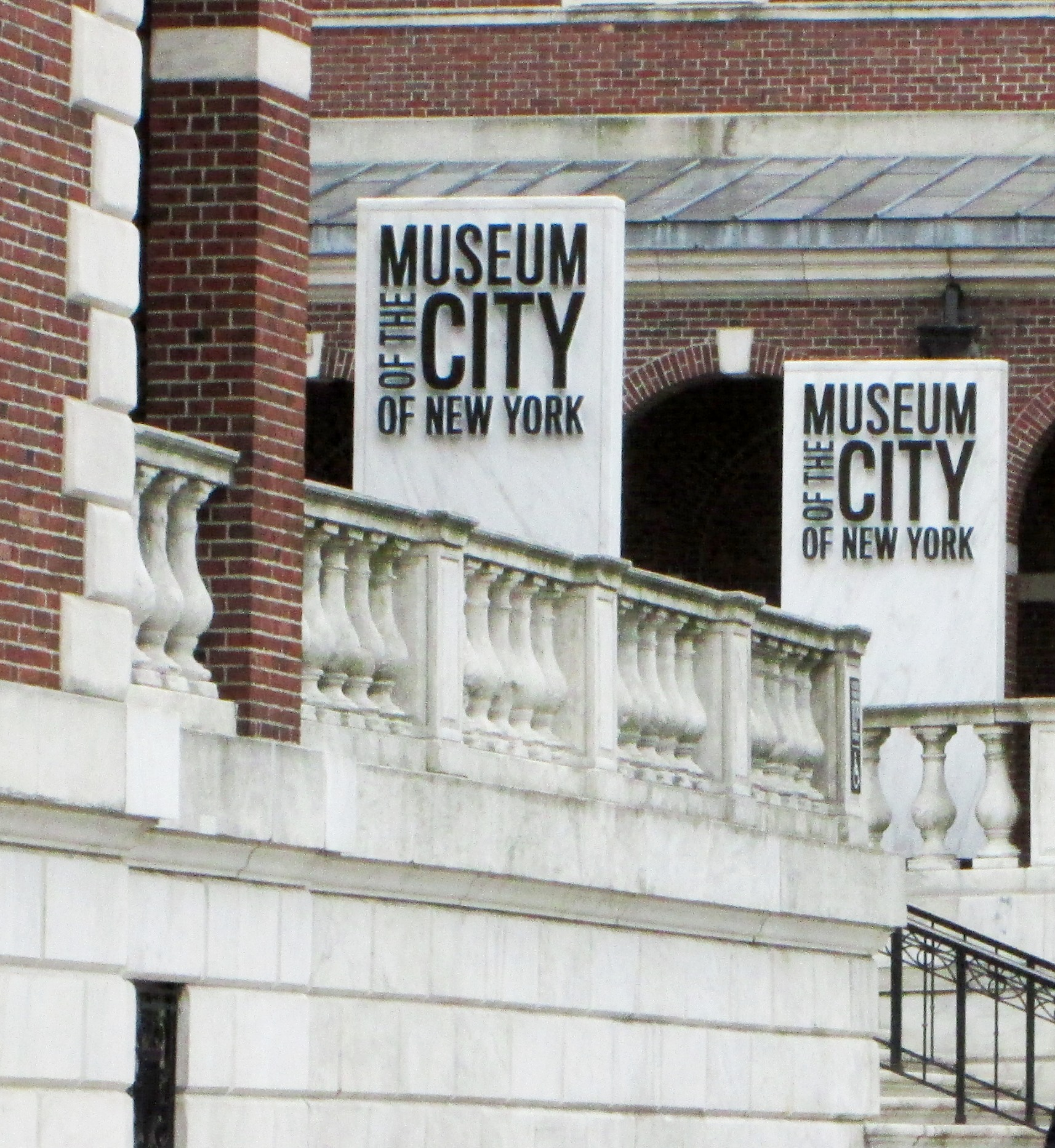 The Museum of the City of New York, located at 1220-1227 Fifth Avenue from East 103rd to 104th Streets, across from Central Park in the East Harlem neighborhood of Manhattan, New York City, was incorporated in 1923, and was originally located in Gtacie Mansion. The museum's current building was constructed in 1928-30 and was designed by Joseph J. Freedlander in the neo-Georgian style; the site was donated by the city, but the building was erected using private funds. Renovations to the galleries and a new pavilion were built in 2008, designed by the Polshek Partnernership. Statues of Alexander Hamilton and DeWitt Clinton by sculptor Adolph A. Weinman face Central Park from niches in the facade. (Sources: Guide to NYC Landmarks (4th ed.) and AIA Guide to NYC (5th ed.))